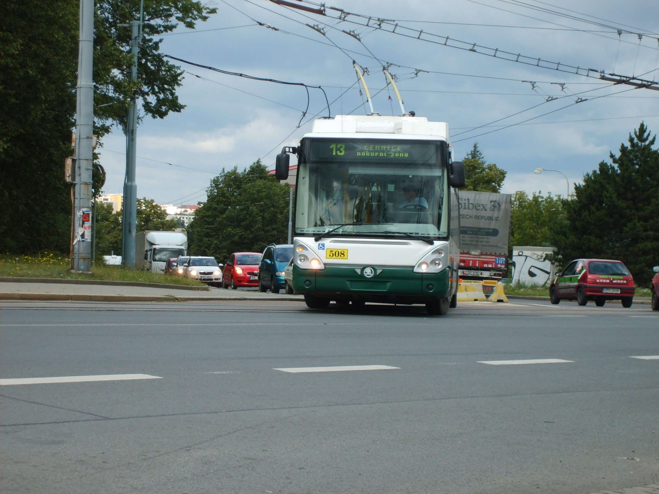 Trolleybus Škoda 24Tr on the line 13 in Plzeň-Slovany.